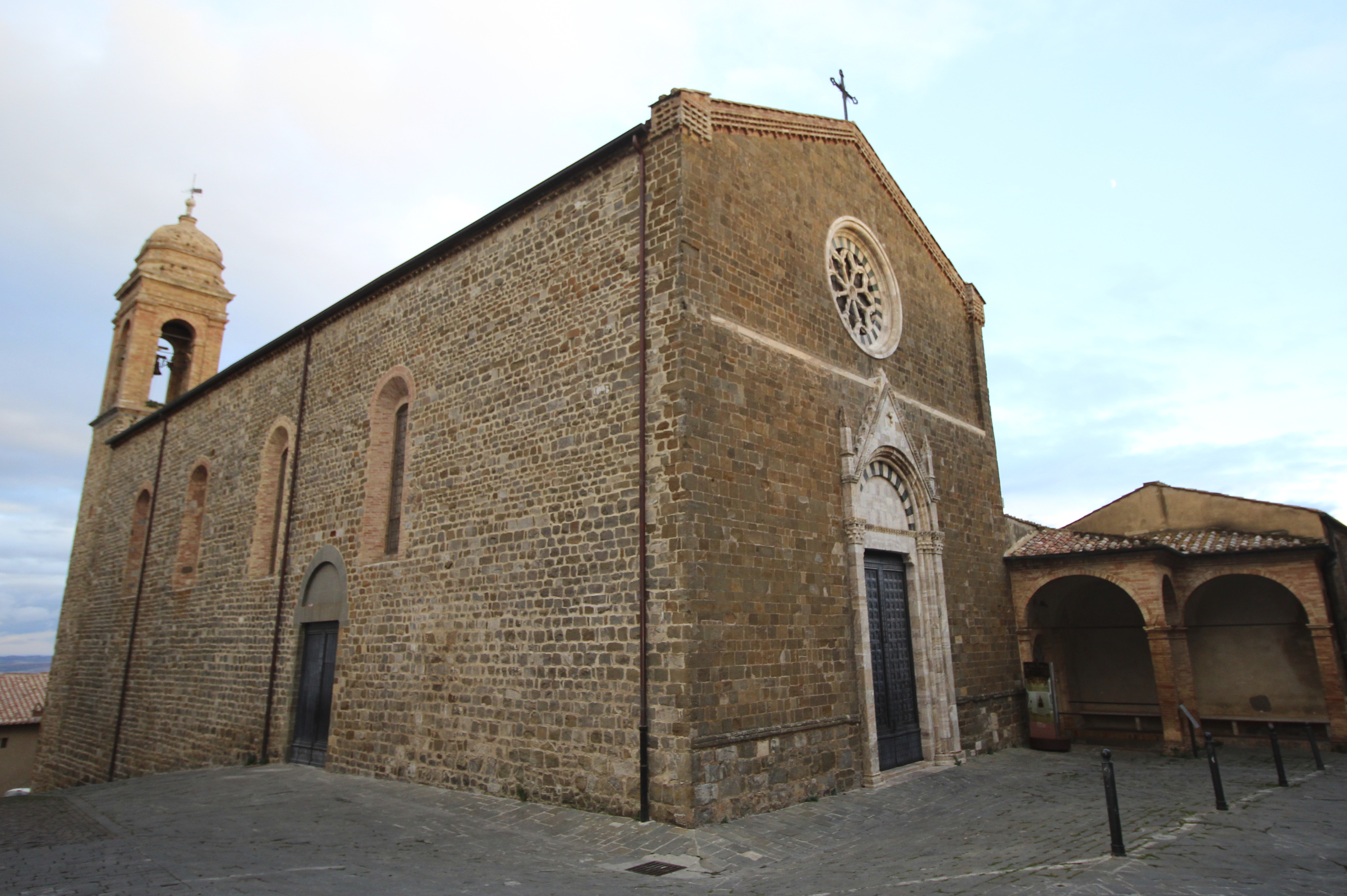 Church Sant'Agostino (Montalcino), Province of Siena, Tuscany, Italy